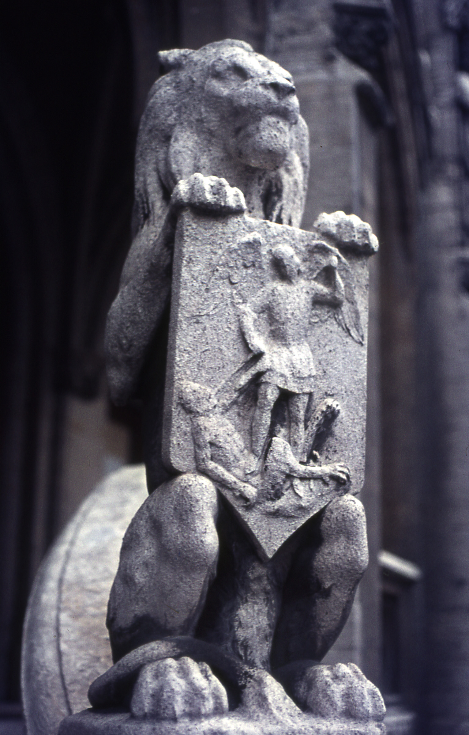 Brussels,GrandPlace,entry townhouse detail